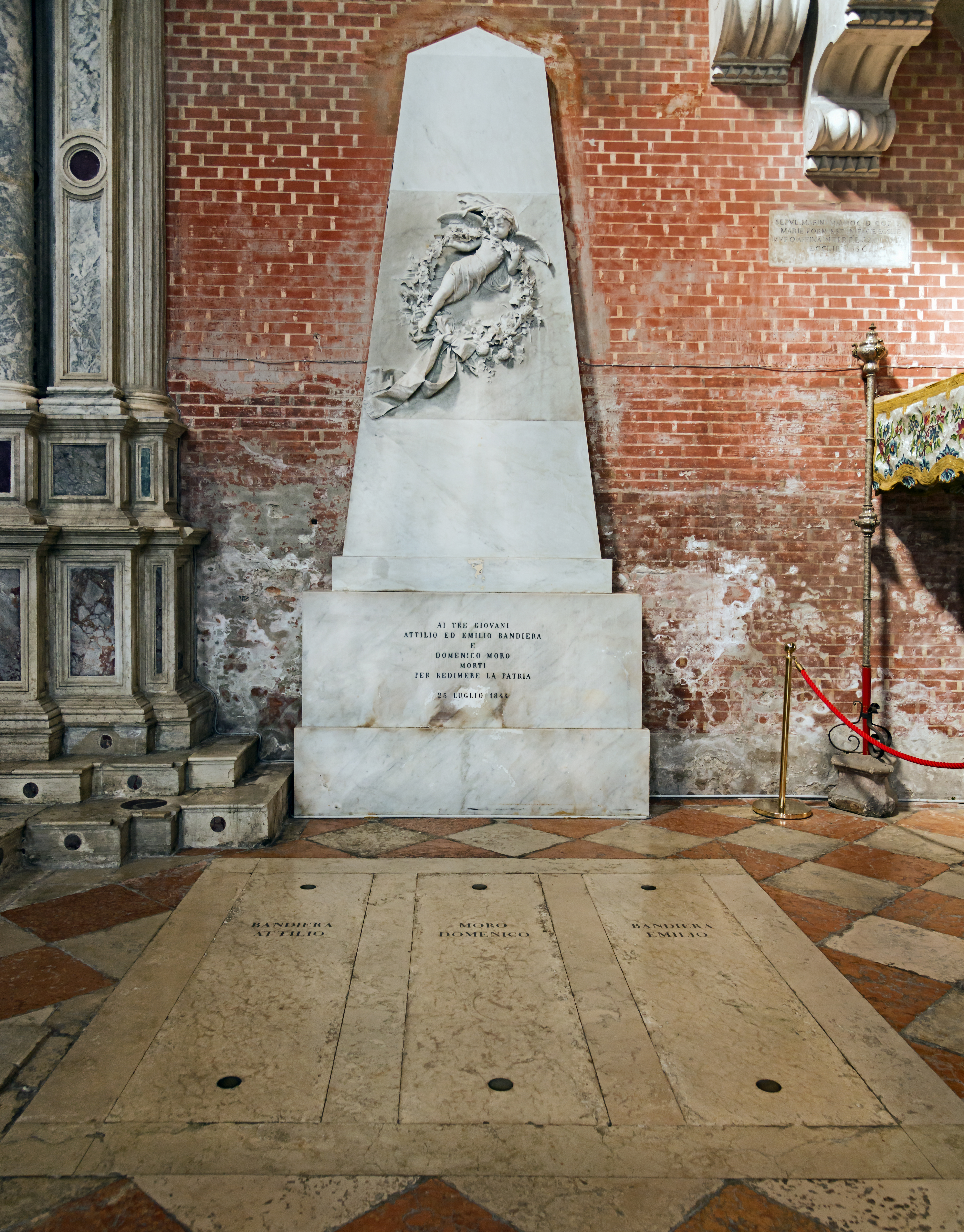 Santi Giovanni e Paolo in Venice. Monument to the Patriots Bandiera brothers and Moro Domenico, whose bodies were transported here in 1867.